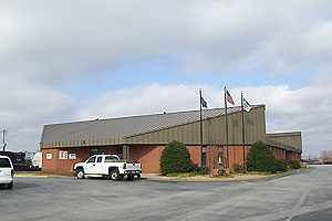 Greenville station building